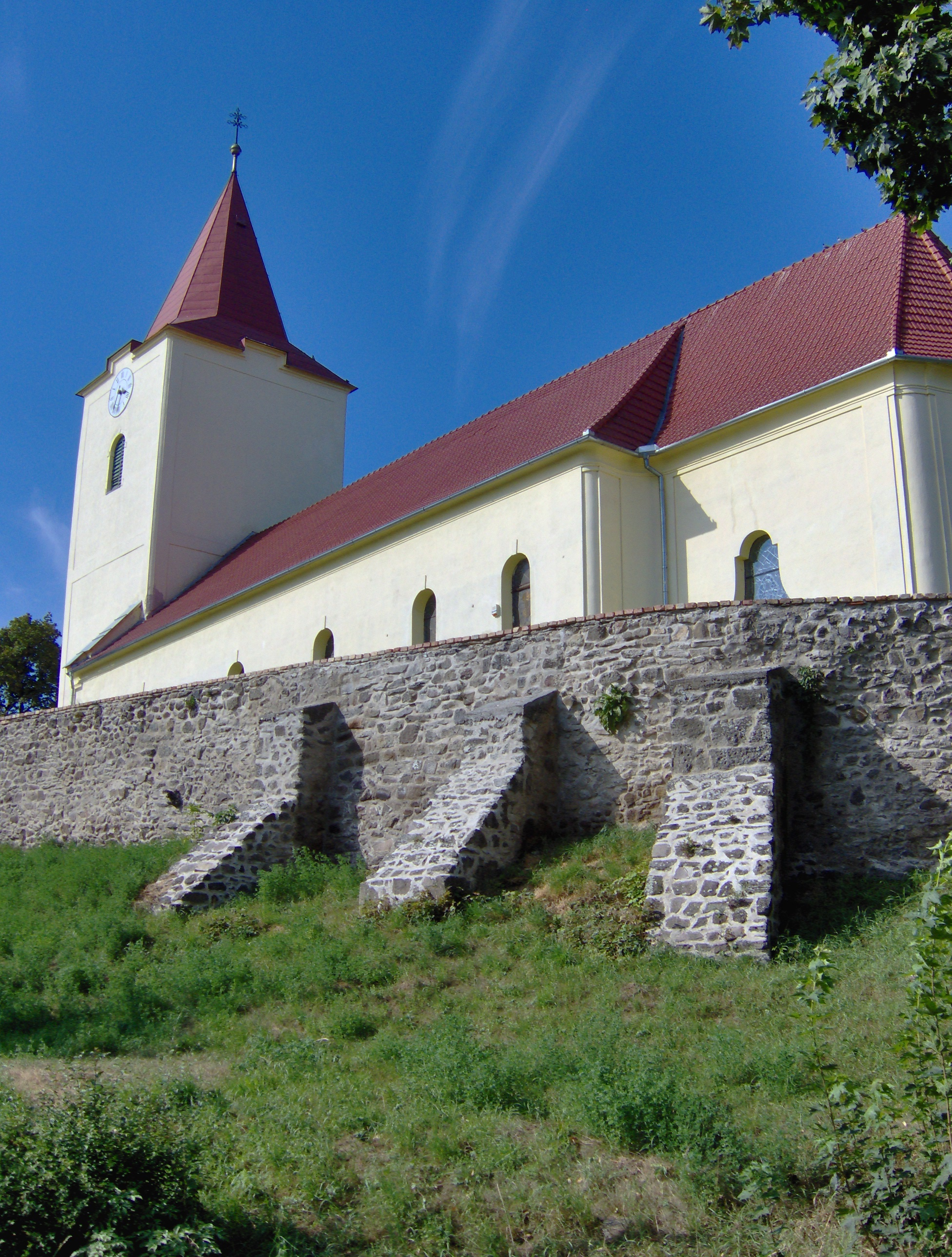 Bátovce , cat.church